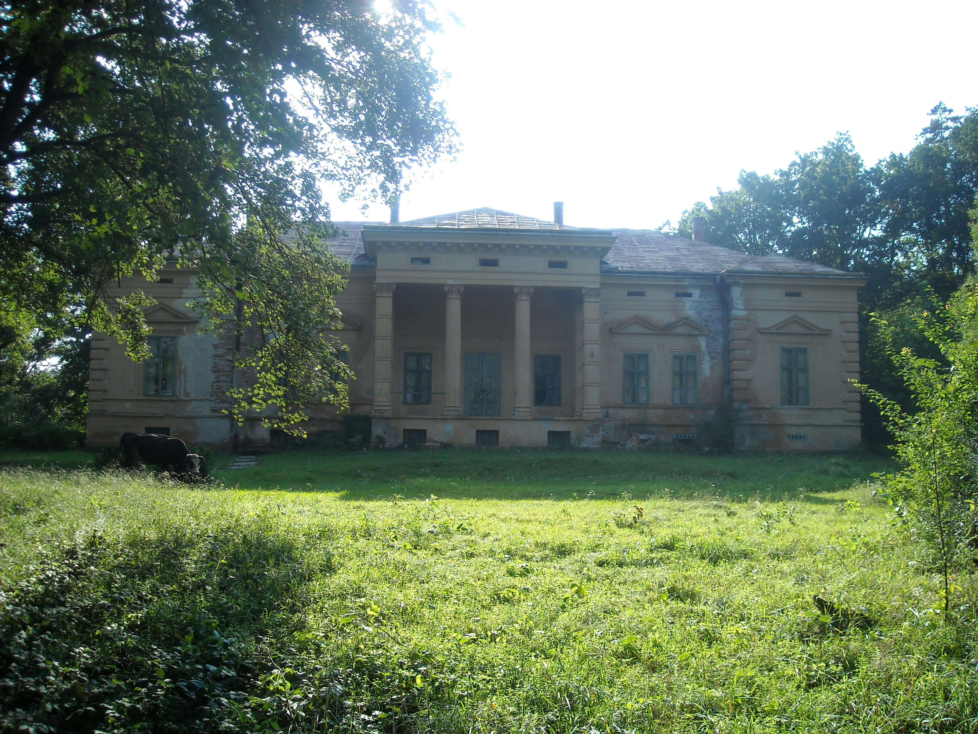 the manor house of the Konopi family in Odvoș, Romania